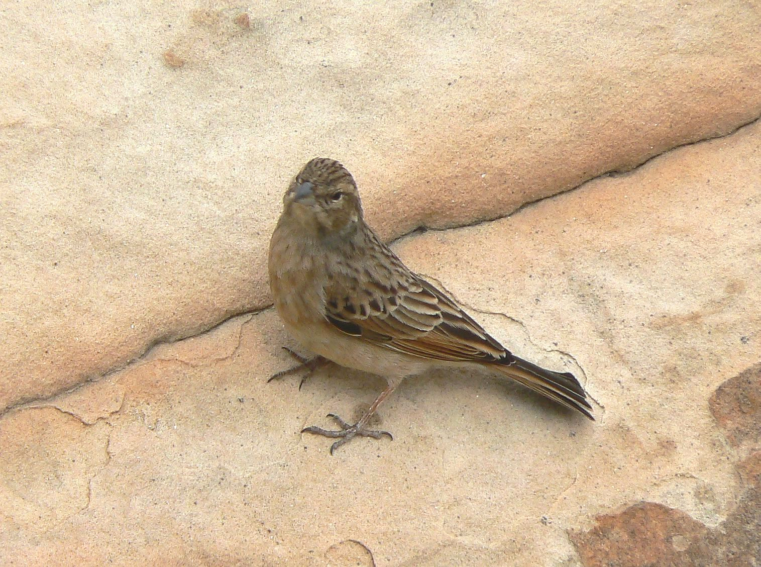 Lark-like bunting in Mapungubwe National Park, South Africa